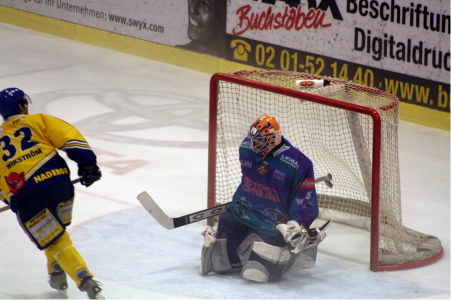 Matthias Wikström of the Lausitz Foxes tallies a penalty against Daniar Dschunussow of the Moskitos Essen